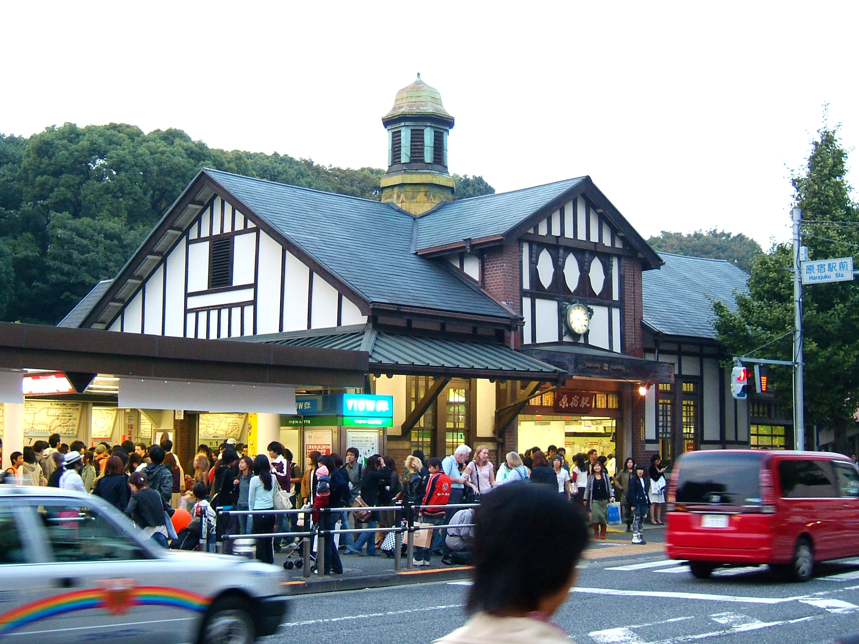 Harajuku station, Tokyo, Japan, October 2006 Photo by LHOON